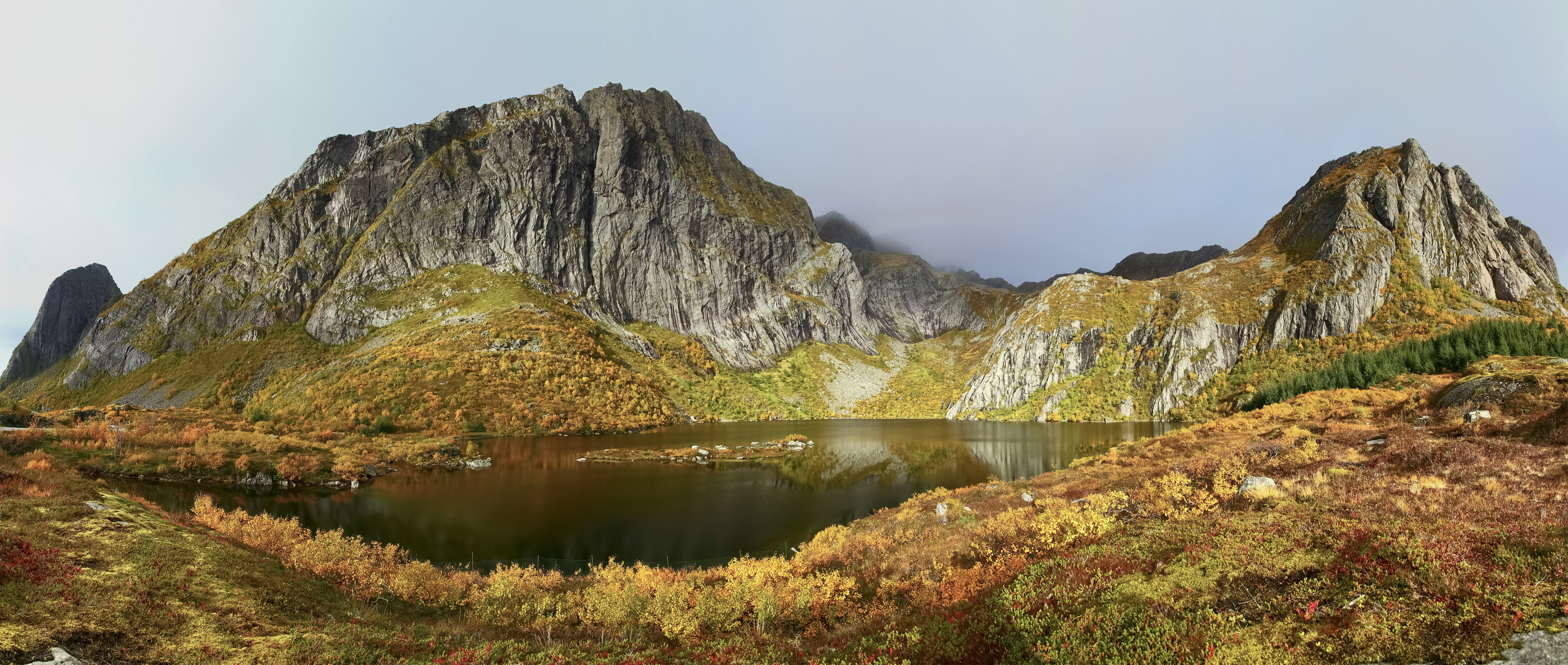 Autumn view at Vassdalsvatnet, Moskenesøya, Lofoten, Nordland, Norway in 2010 September. The rockfaces behind belong to the eastface of Lilandstinden (700 m) and Bukkskinntinden (768 m) summits.